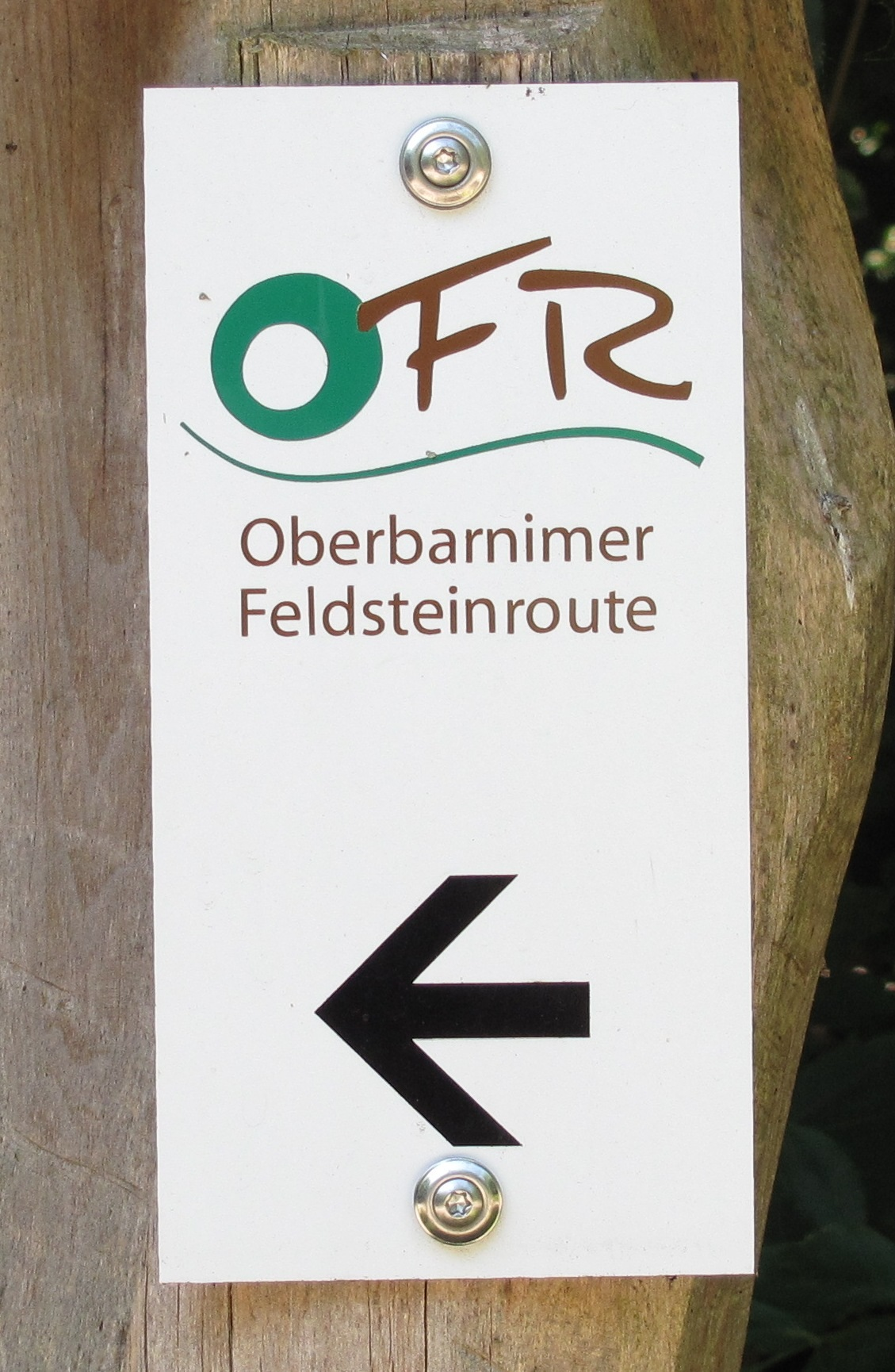 Sign of the Oberbarnimer Feldsteinroute on an information board in Pritzhagen. The Oberbarnimer Feldsteinroute is a 41,5 kilometers long walking and bike trail in the traces of the building material fieldstone in the District Märkisch-Oderland, Brandenburg, Germany. It runs on the Barnim Plateau and mainly through villages in the Märkische Schweiz Nature Park.